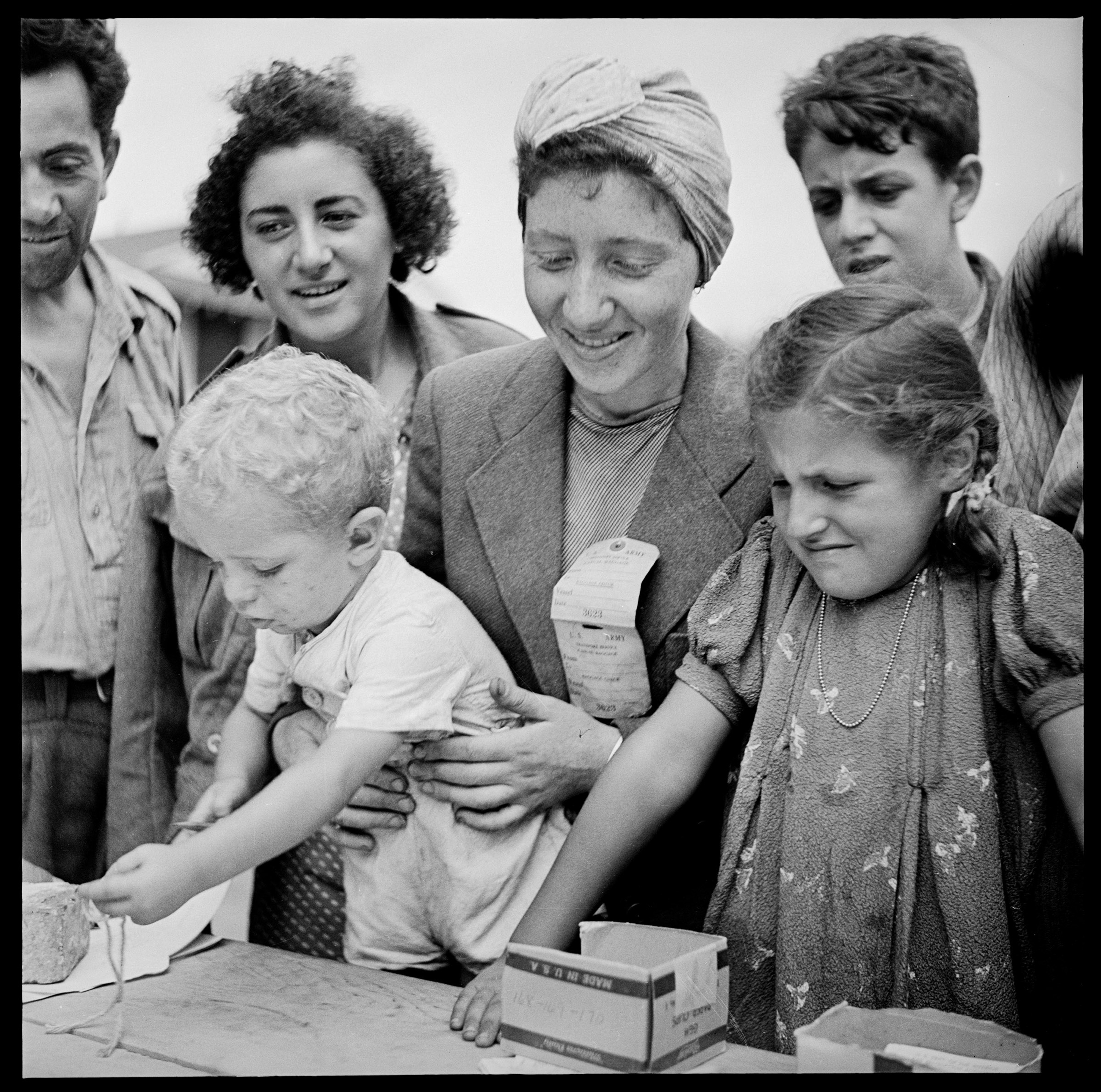 Women and children registering for the Fort Ontario Refugee Camp, August 1944.